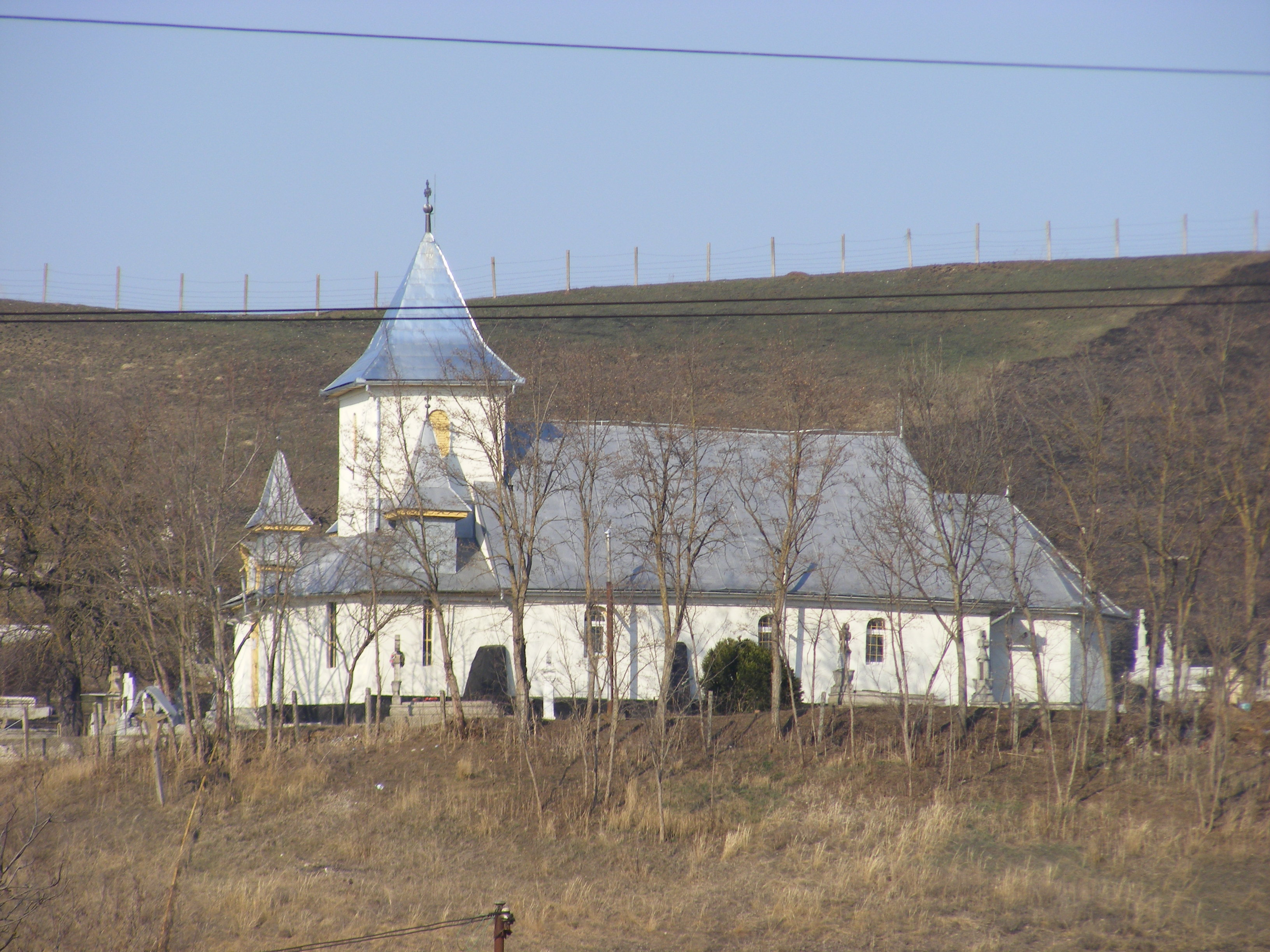 Ortodoxian church in Gura Arieşului (Vajdaszeg)